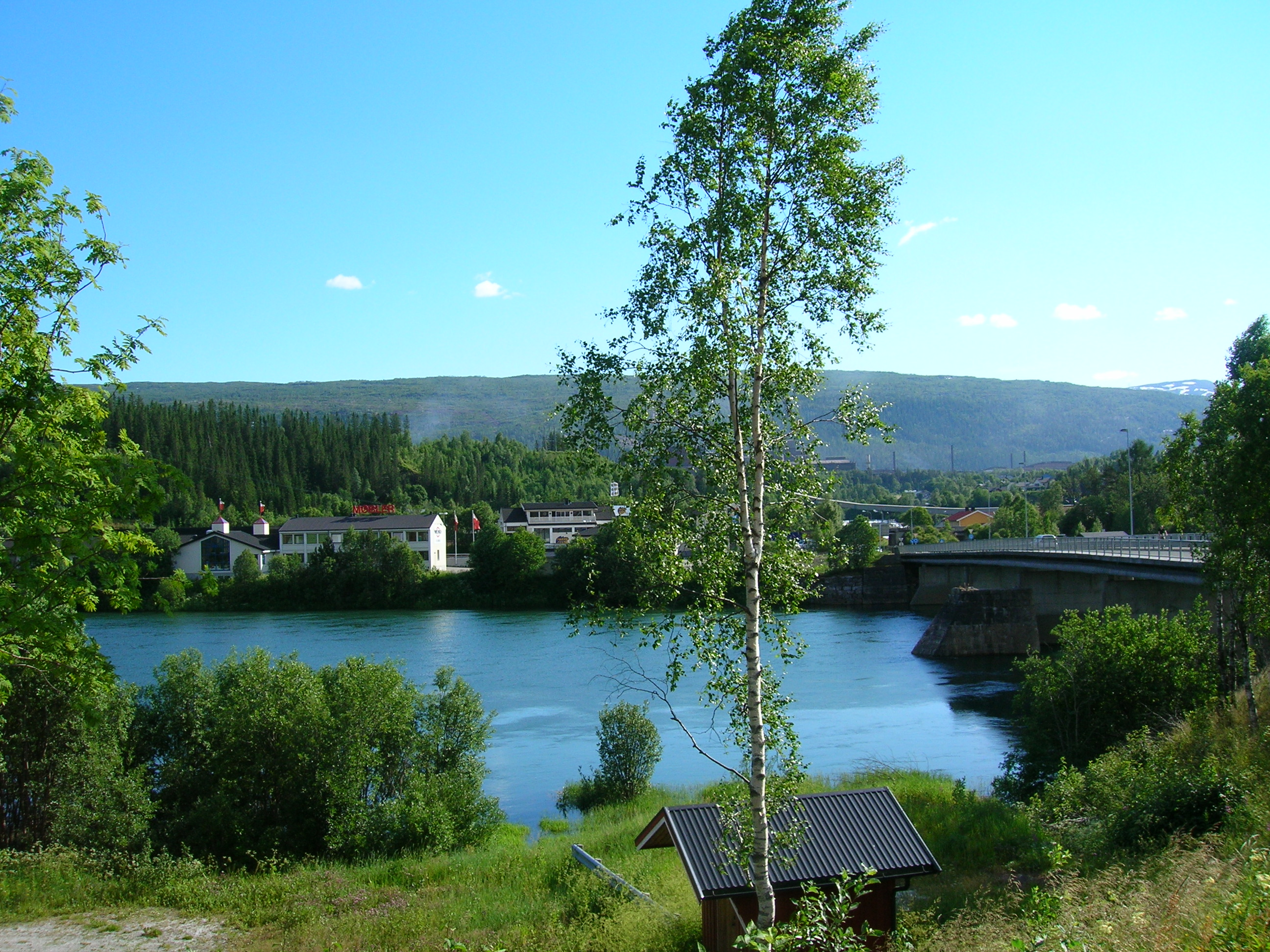 Ranelva seen from Selfors in Mo i Rana, Nordland, Norway. Photo July 4, 2007 with a Nikon Coolpix 5600 5,1 Megapixel camera.